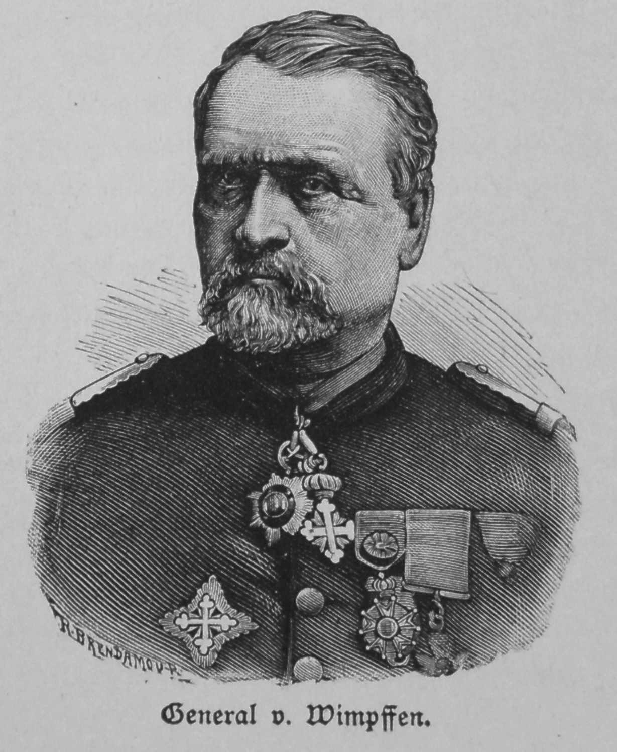 general von Wimpffen